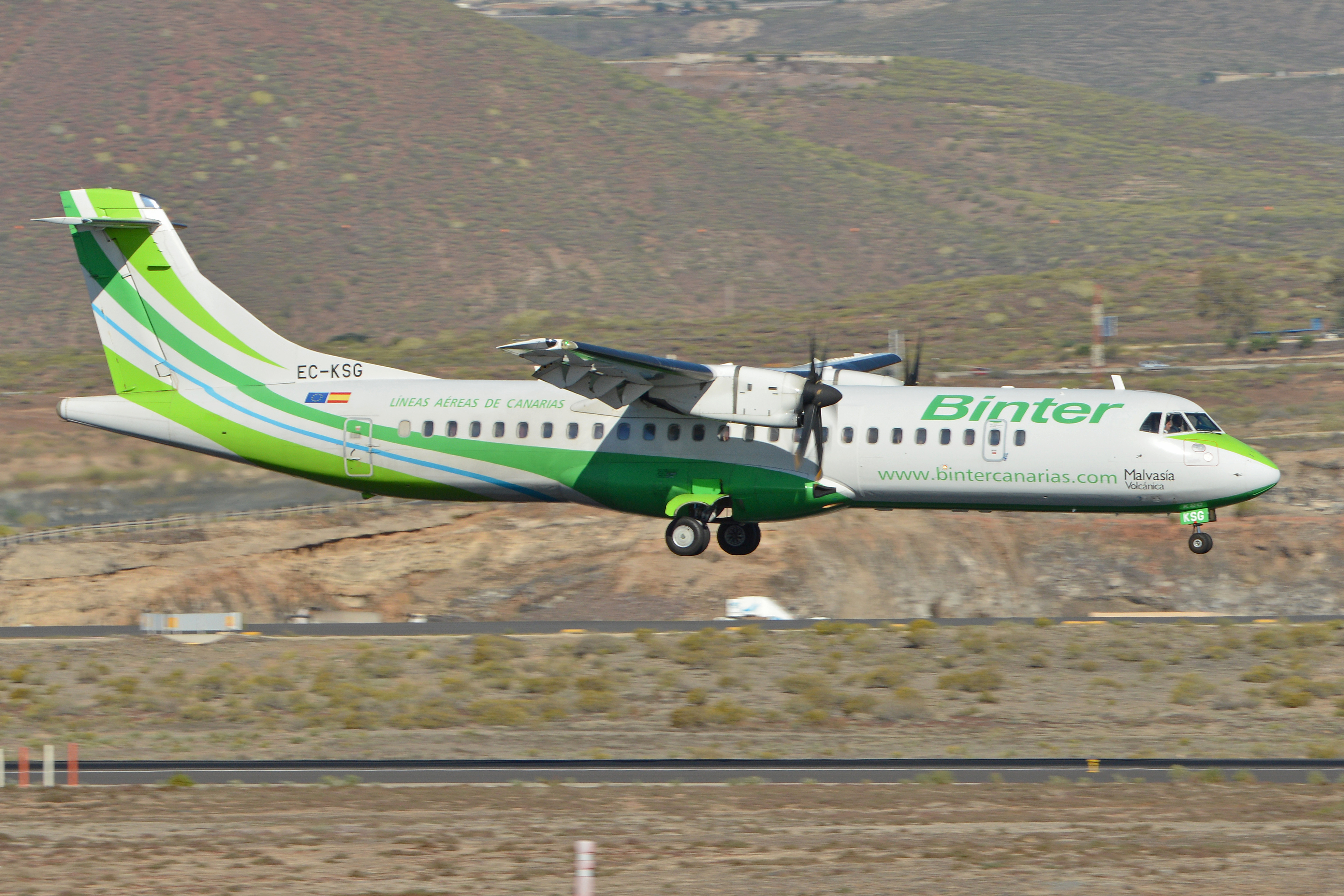 c/n 796. Built 2008. Arriving on flight NAY304 from Las Palmas. Tenerife South Airport, Canary Islands. 20-1-2016